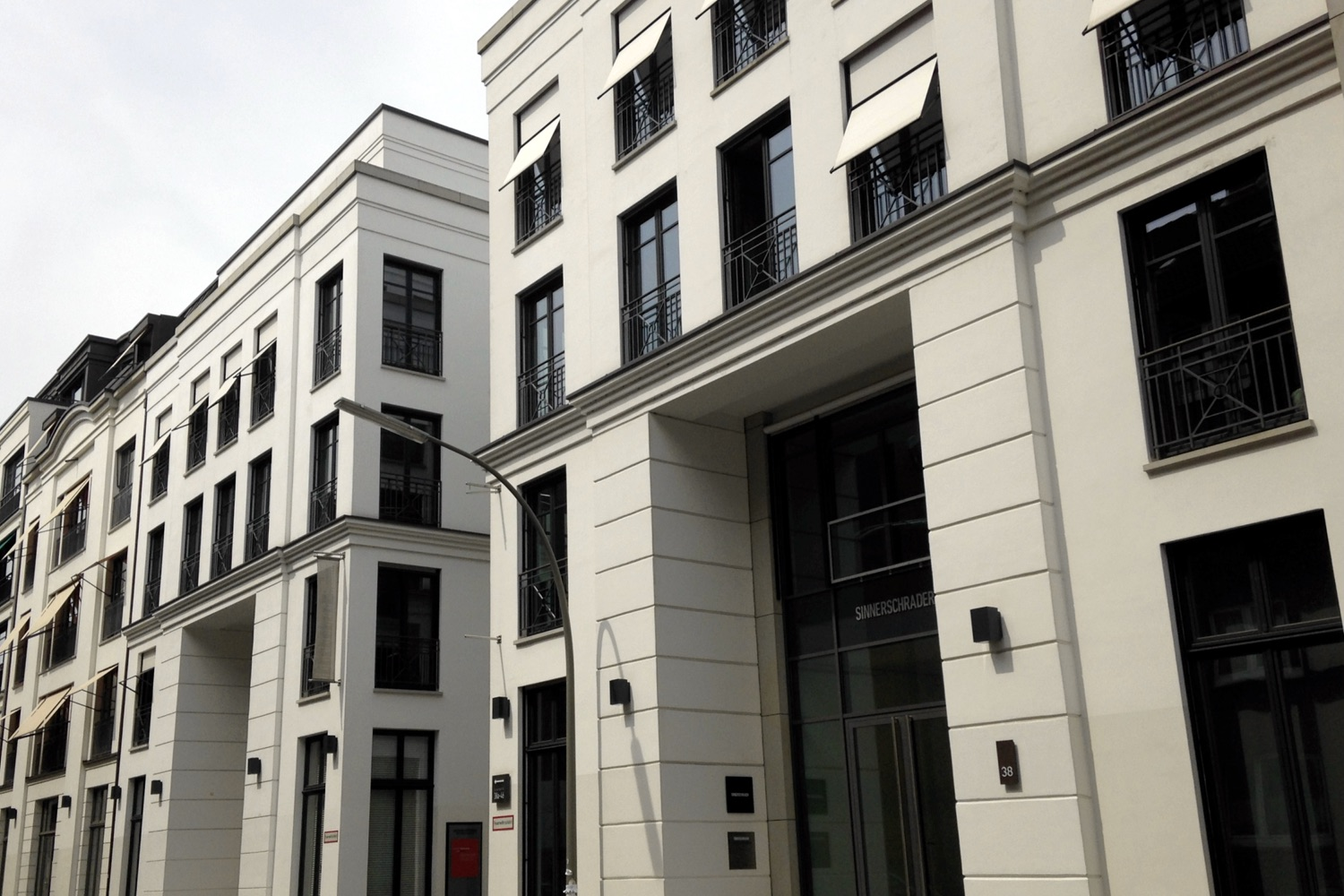 Office of SinnerSchrader in Hamburg-Ottensen (2013)